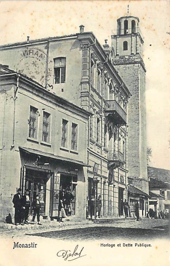 Bitolya Clock Tower Ottoman Postcard